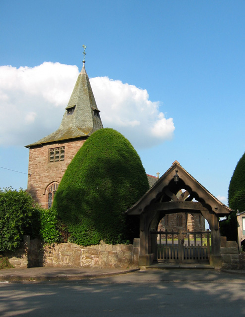 St Wenefrede's parish church, Bickley, Cheshire, seen from the southwest